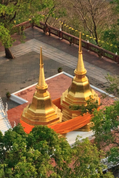 Phra That Doi Tung pagodas, as seen in 2012. Cropped from File:Apr_18,55_BE_0068_Wat_Phra_That_Doi_Tung.jpg